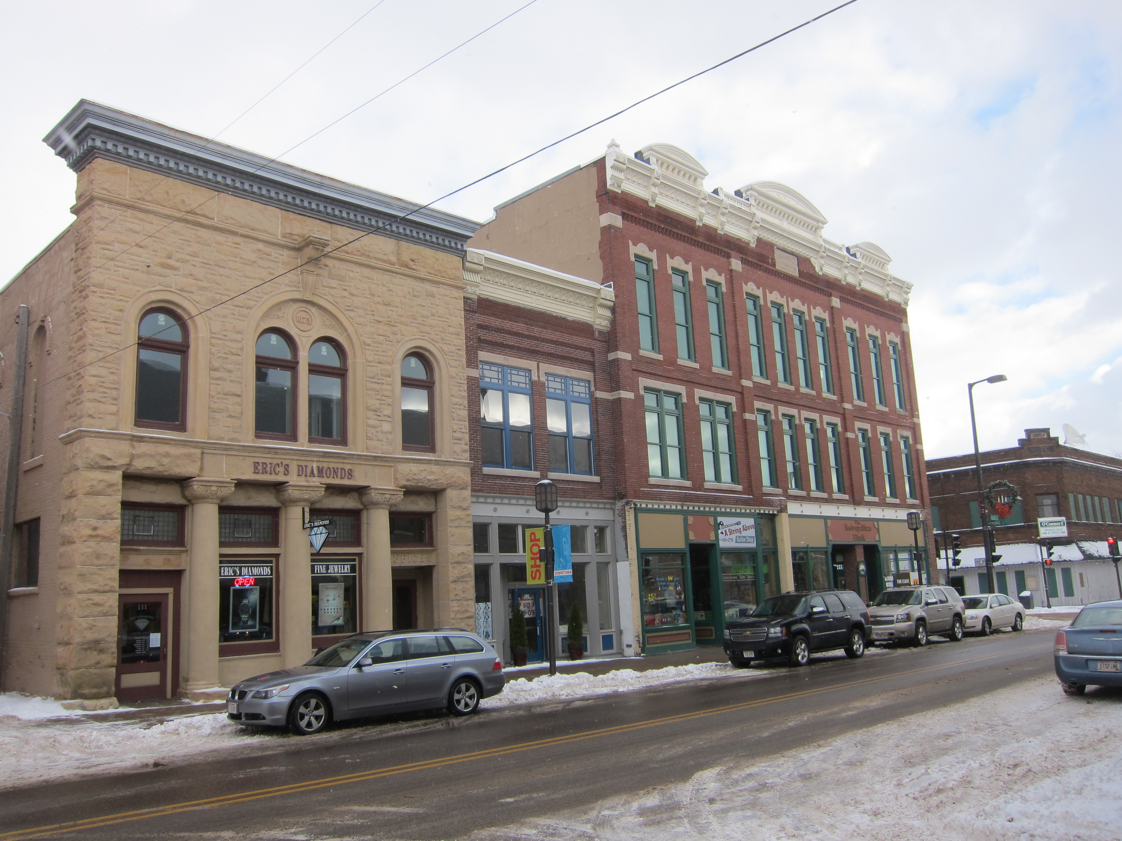 First National Bank and other buildings in Bridge Street Commercial Historic District in Chippewa Falls, WI, listed on the National Register of Historic Places.